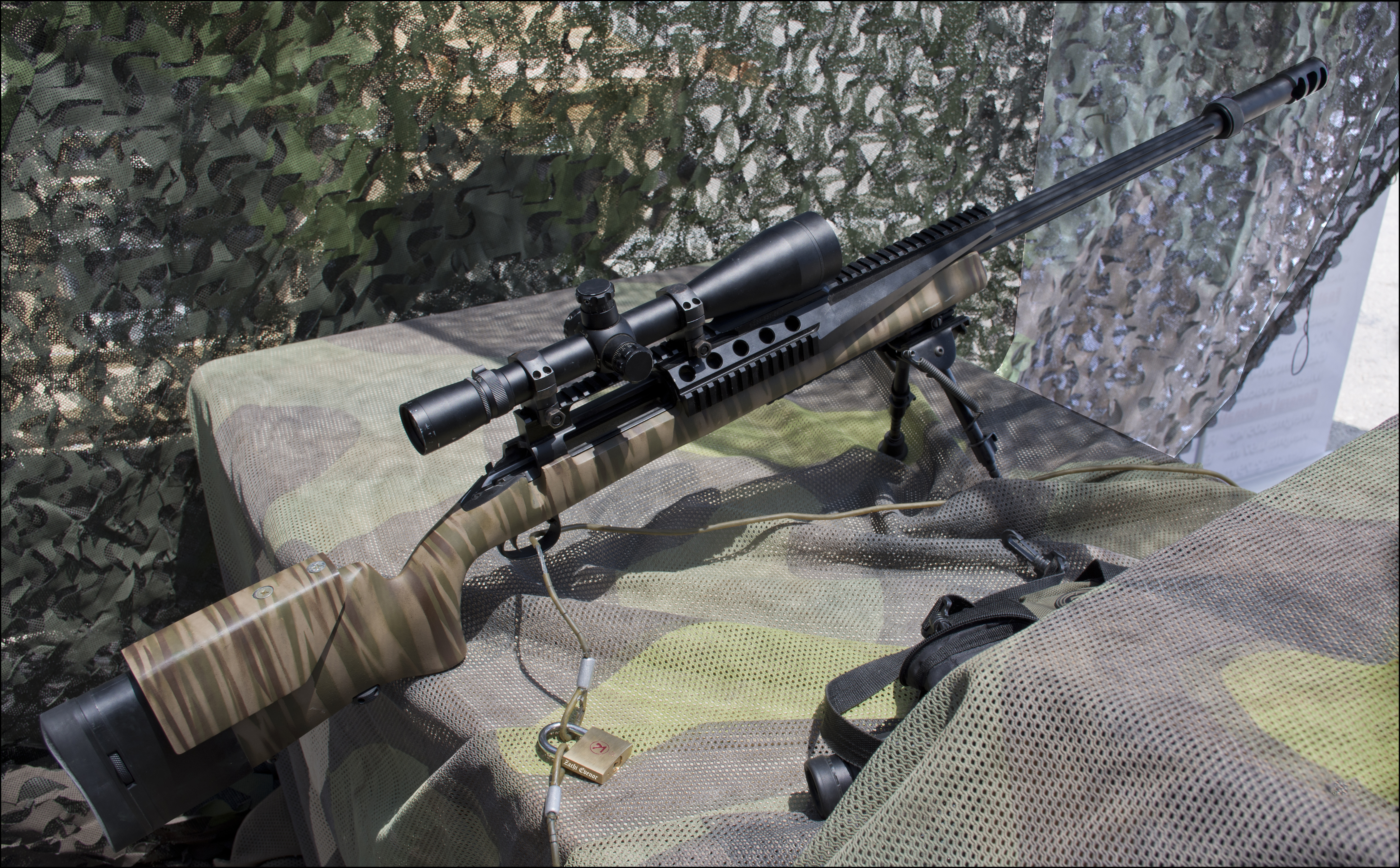 IDF Barak .338 Sniper Rifle (modified H-S Precision Pro Series 2000 HTR), Israel 68th Independence Day, Ground Army Exhibition, Yad LaShiryon, Israel